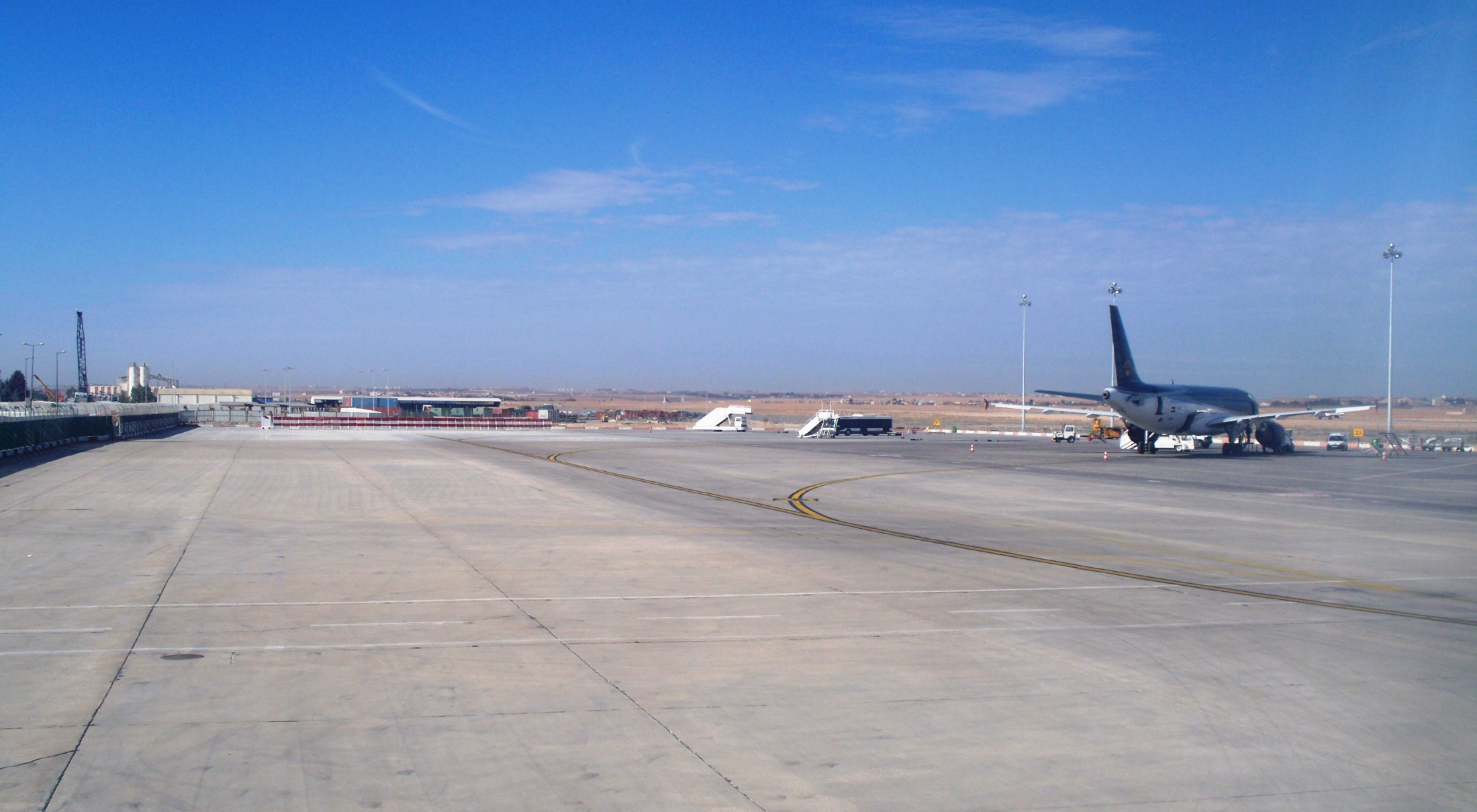 Queen Alia International Airport during midday heat.